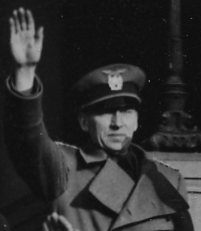 According to Aftenposten Monday, October 27, 1941, the Nasjonal Samling's Labor Service's parade took place on Karl Johans gate in Oslo and defilation for the Labor Service boss, General Frölich Hanssen and the minister president Vidkun Quisling on the University Aula staircase on Saturday morning, October 25, 1941.